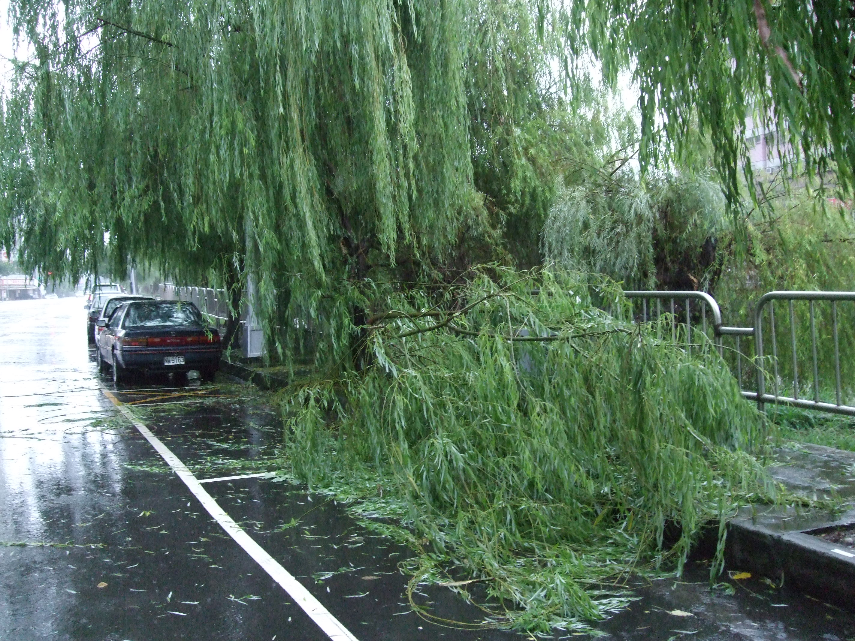 Fallen tree along the Liu River in downtown Taichung, Taiwan during the height of Tropical Storm Kalmaegi on July 18, 2008.